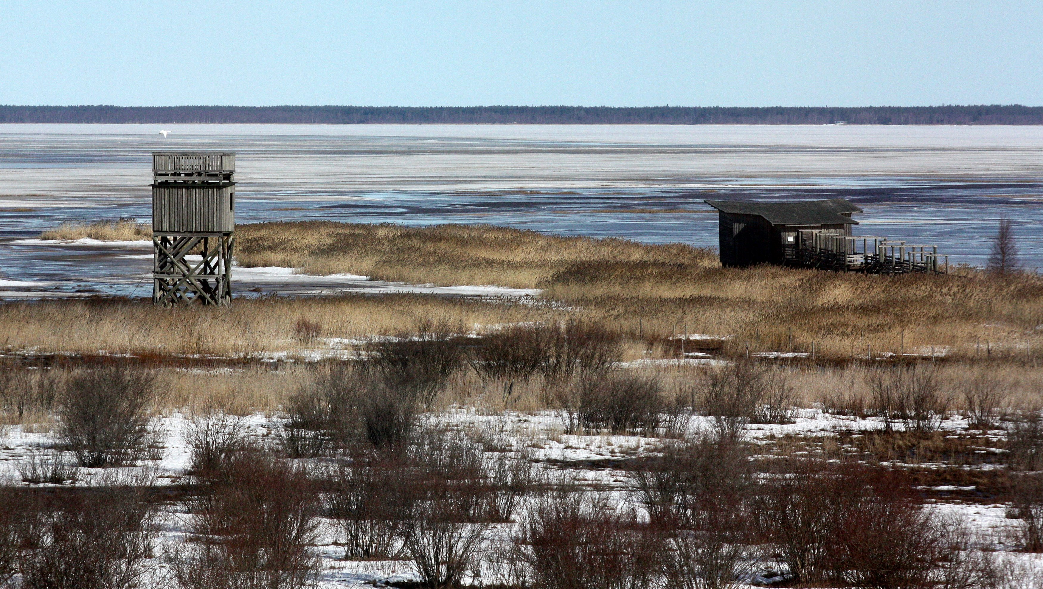 Birdwatching hideouts in Liminganlahti, Finland.